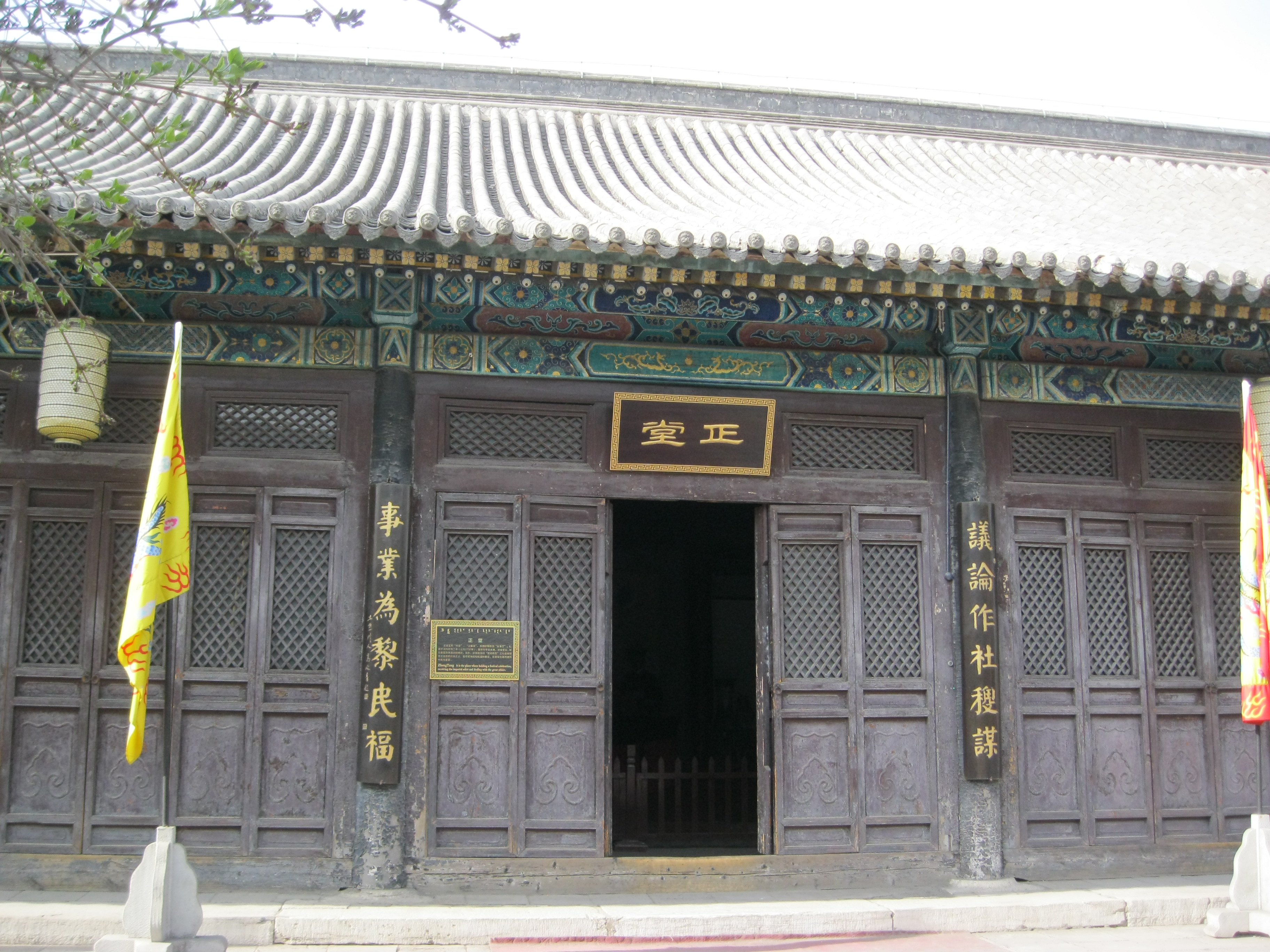 The main hall (正堂) of Suiyuan Governer mansion, in Hohhot.